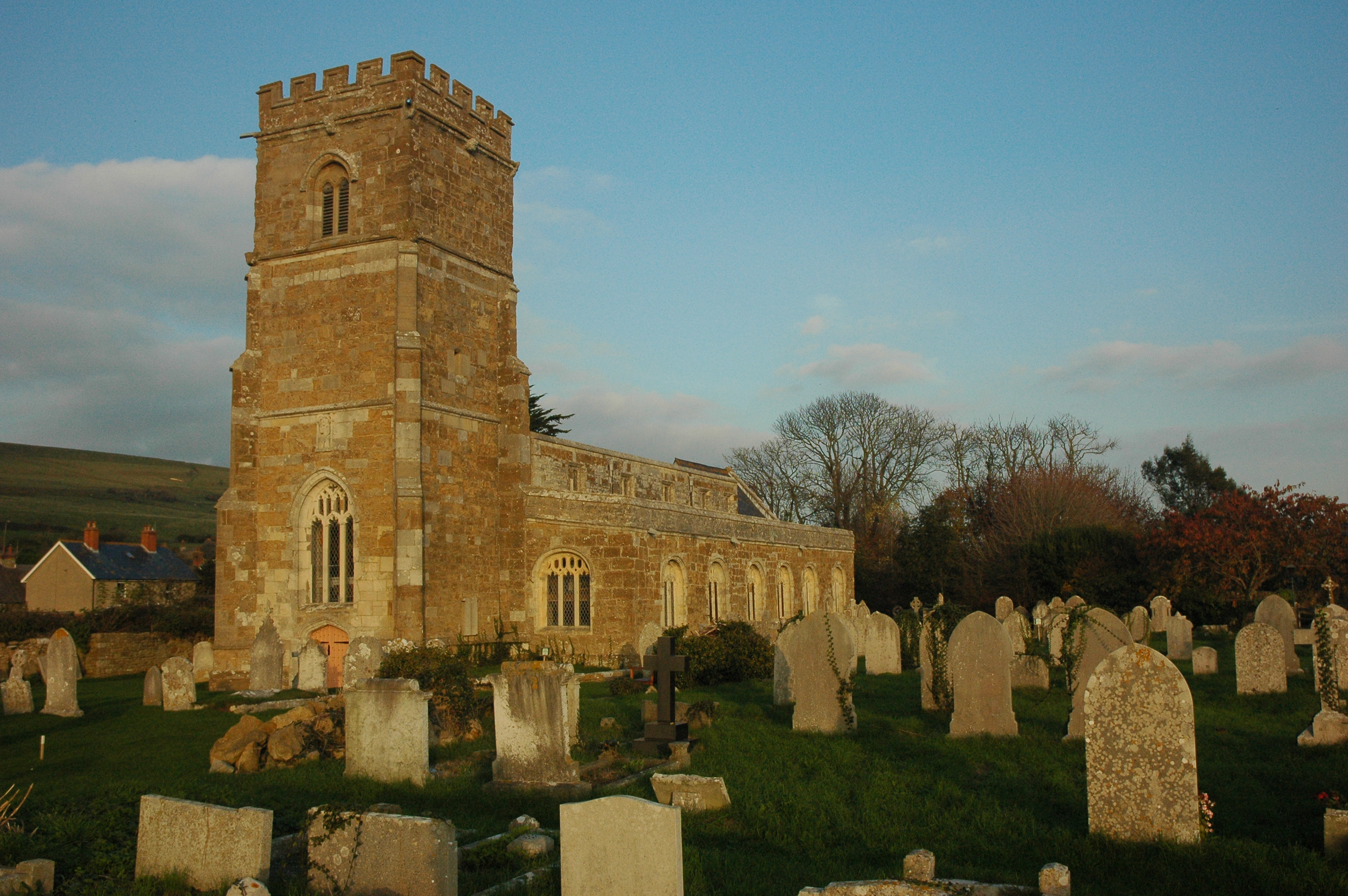 St Nicholas' parish church, Abbotsbury, Dorset, seen from the southwest